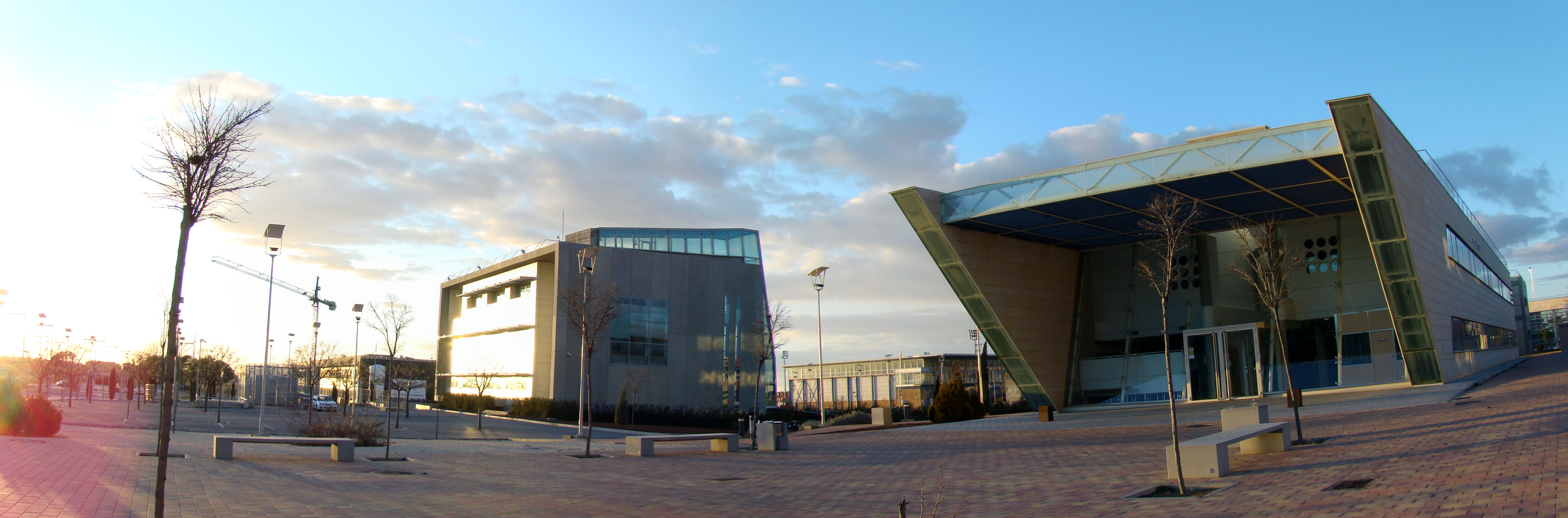 The Albacete Research Institute of Informatics and the European Business and Innovation Centre (CEEI) in the Science & Technology Park of Castile La Mancha